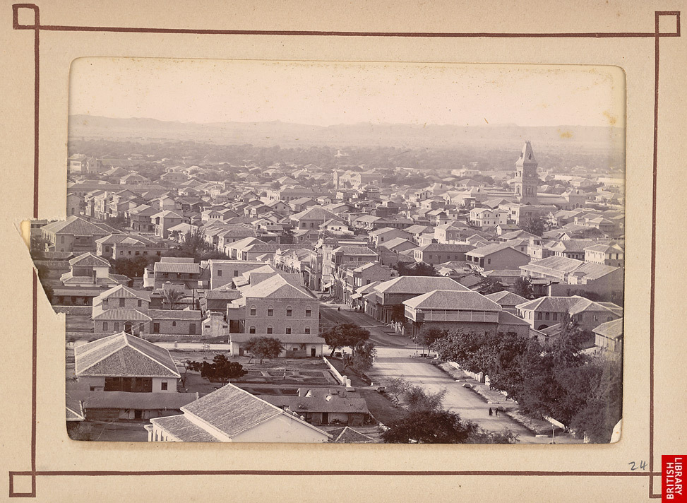 Bird's eye view Suddar Bazaar [Karachi]. Photograph with a view of Saddar Bazaar, Karachi, with the Empress Market in the right background, taken by an unknown photographer, c.1900, from an album of 46 prints titled 'Karachi Views'. Karachi, one of the world's largest metropolises, was once the capital of Pakistan. It is now the capital of the Sindh province in the lower Indus valley, and is the financial and commercial centre of Pakistan. This huge city was however developed only in the mid-19th century after the British conquest of Sindh. Karachi is built around a bay which is a natural harbour protected from storms by a group of small islands. Its history prior to the 18th century is sketchy but it is believed to be the ancient port of Krokala on the Arabian Sea, visited by Alexander's admirals in 326 BCE. The small fishing village was known as Kolachi-jo-Goth in the 18th century, and then became a trading post under the Kalhoras and the Talpur rulers of Sindh, but the port remained small. With the British development of its harbour it grew into the large city of Karachi and an important centre of trade. Sadr Bazaars were permanent markets which existed all over the Indian sub-continent, they were developed by British forces in the towns they occupied to facilitate the provision of supplies to the troops in the cantonments. The Saddar Bazaar at Karachi followed a typical gridiron plan; all the major north-south streets of the Bazaar were laid out at right angles to Bunder Road, Frere, Somerset and Elphinstone Streets which along with Victoria Road, linked the northern part of the cantonment to the southern part. The area soon developed into the most fashionable part of the city, supplying the needs of both its civilian and military parts.